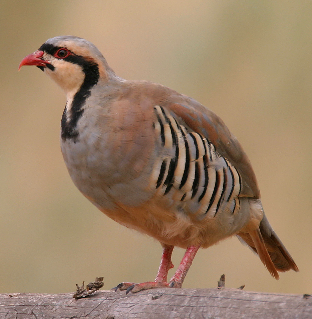 Chukar (Alectoris chukar) - Capitol Reef National Park (Utah, USA) 2004